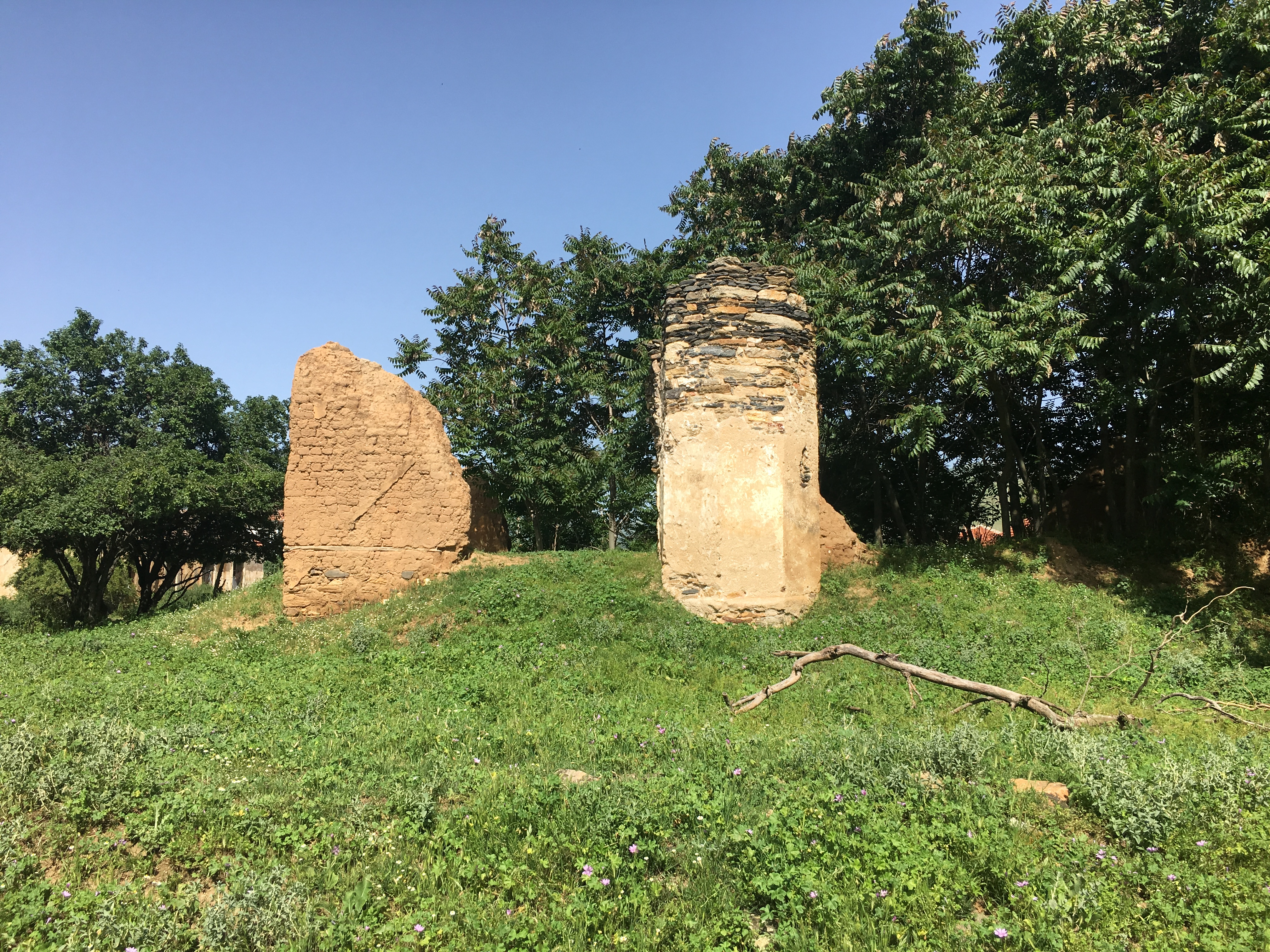 Remnants of a mosque in the village of Musinci